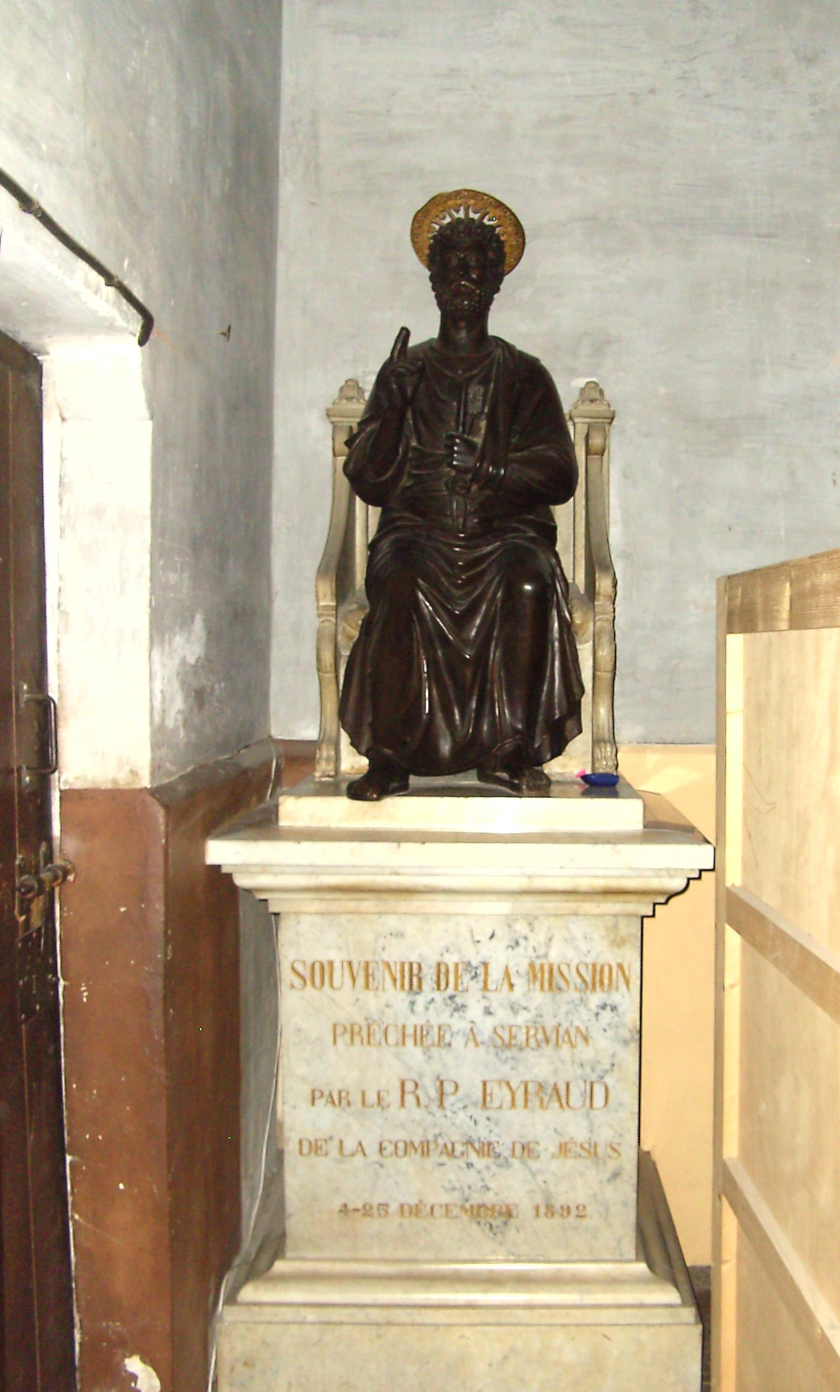 Statue assise sur la base. "Souvenir de la Mission Prechee a Servian (Hérault) par le R.P. Eyraud de la Compagnie de Jésus 4-25 Décembre 1892" (Eglise Saint Julien et Sainte Basilisse - ? de la Saint Dominique)